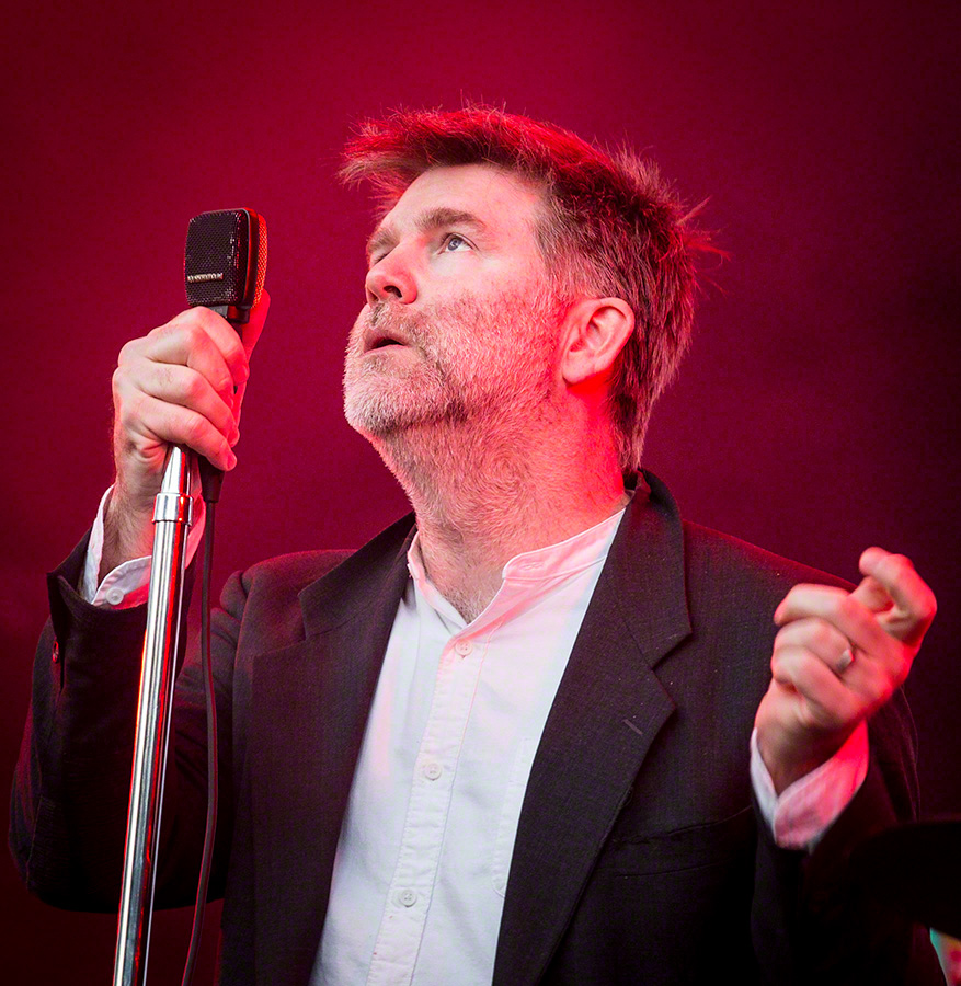 James Murphy performing as part of LCD Soundsystem at Q25 Jubileumsfesten (Kristiansand, Norway) on June 28, 2016.